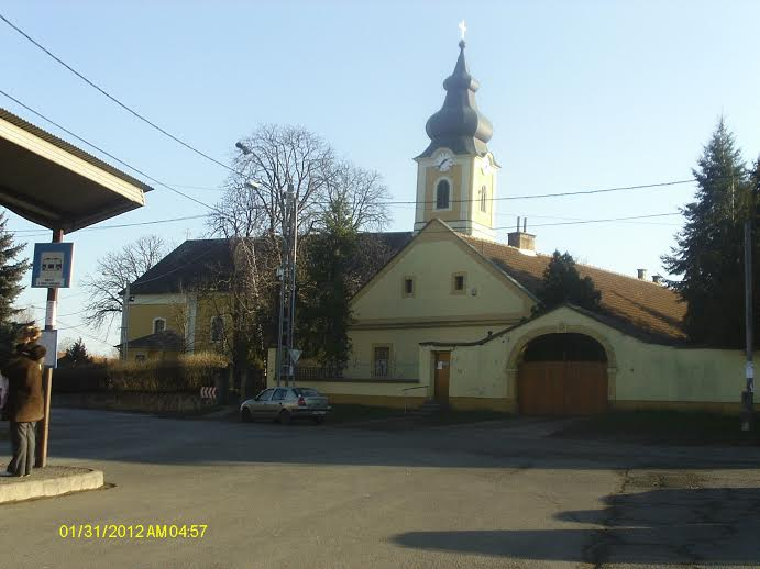 Parish Church in Verpelét, Hungary